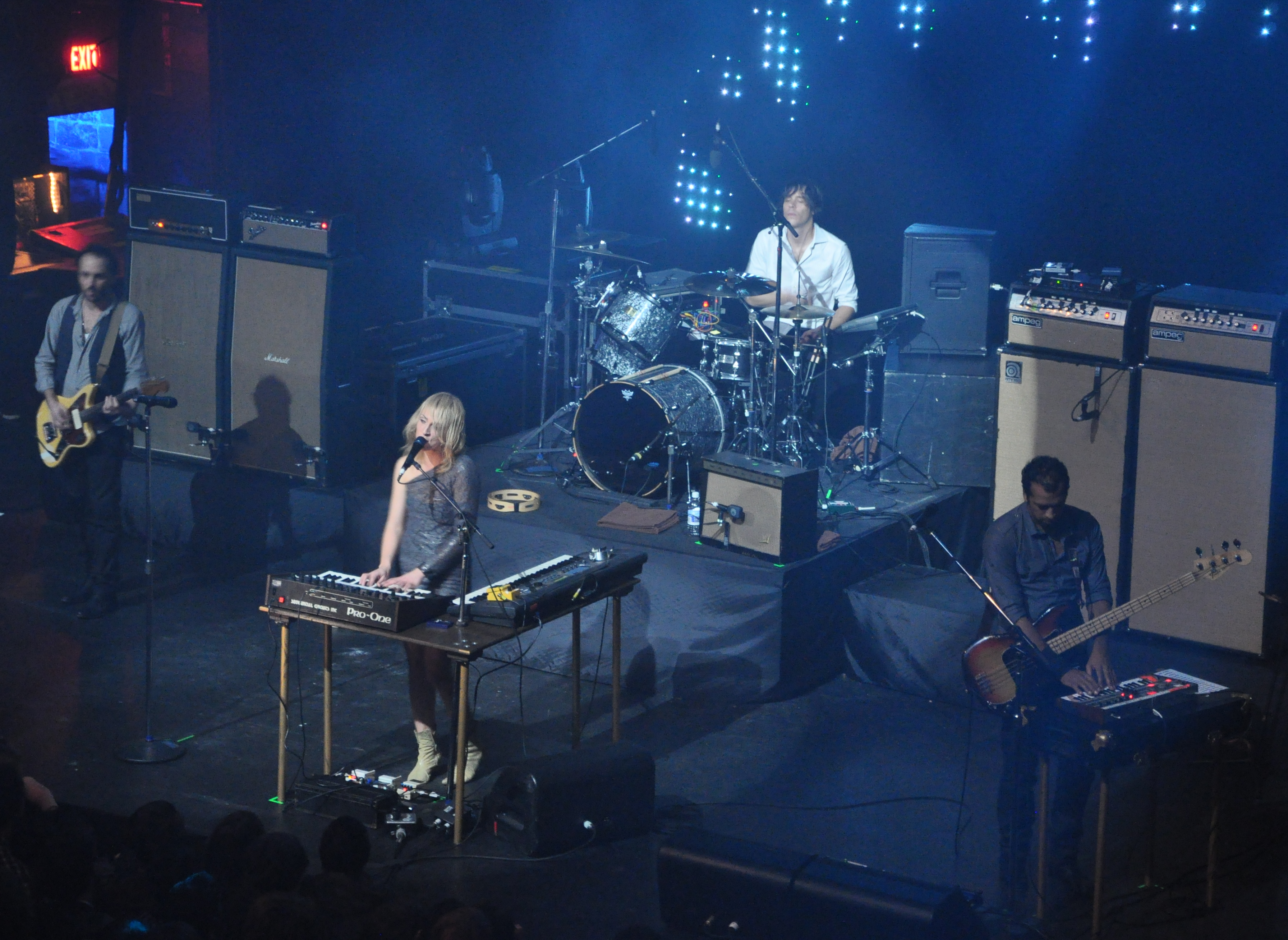 Metric in 2008. l2r: Shaw (guitar), Haines (vocals, keyboard), Scott-Key (drums), Winstead (bass, synth.)